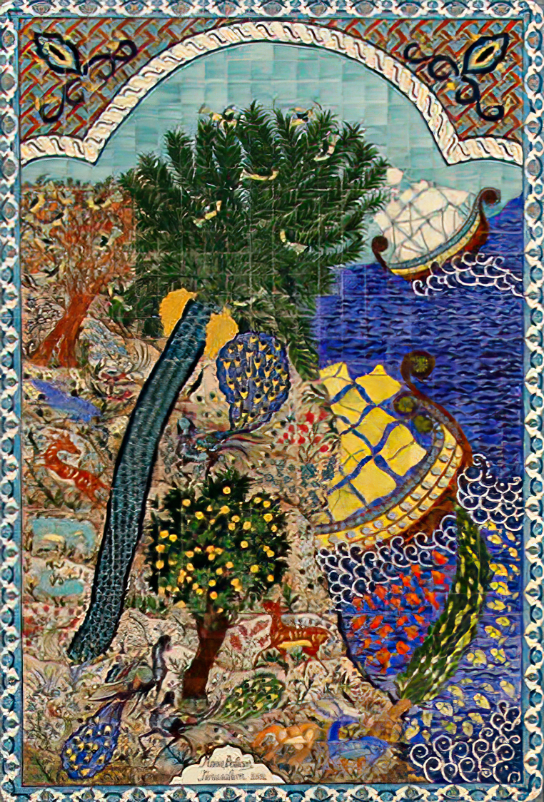 "A Glimpse of Paradise", ceramic art tilework by Armenian artist Marie Balian, central Jerusalem, Coresh street (aka Koresh)